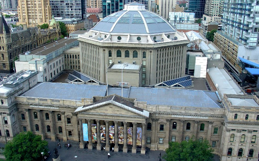 This overview of the State Library of Victoria was taken by Brian Jenkins on 6 Dec 2007 from the top floor of the facing Unilodge apartments building. If reused, please acknowledge the creator. Contact me at my Talk page for a higher resolution version or to view shots from the same angle under different lighting conditions. Bjenks (talk) 03:38, 15 December 2007 (UTC)